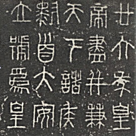 Small seal script epigraph on the standard weight prototype of Qin Dynasty. Made from iron, this prototype was unearthed in 1973 at Wendeng City (文登市), Weihai, Shandong Province. Public domain. See this image for more details.